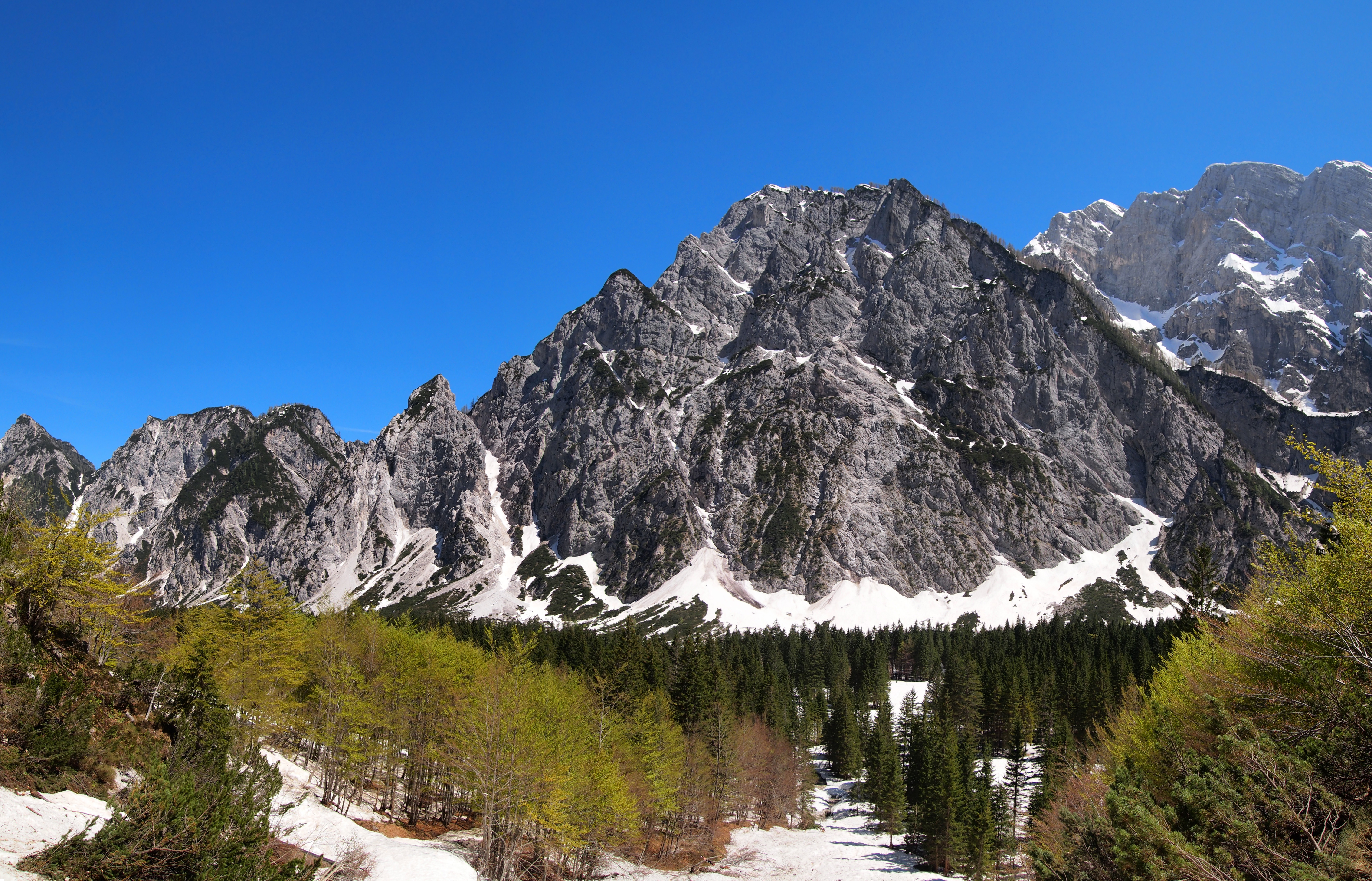 View on Planica valley to a mountain in east. This photograph was taken with a Olympus E-PL1.